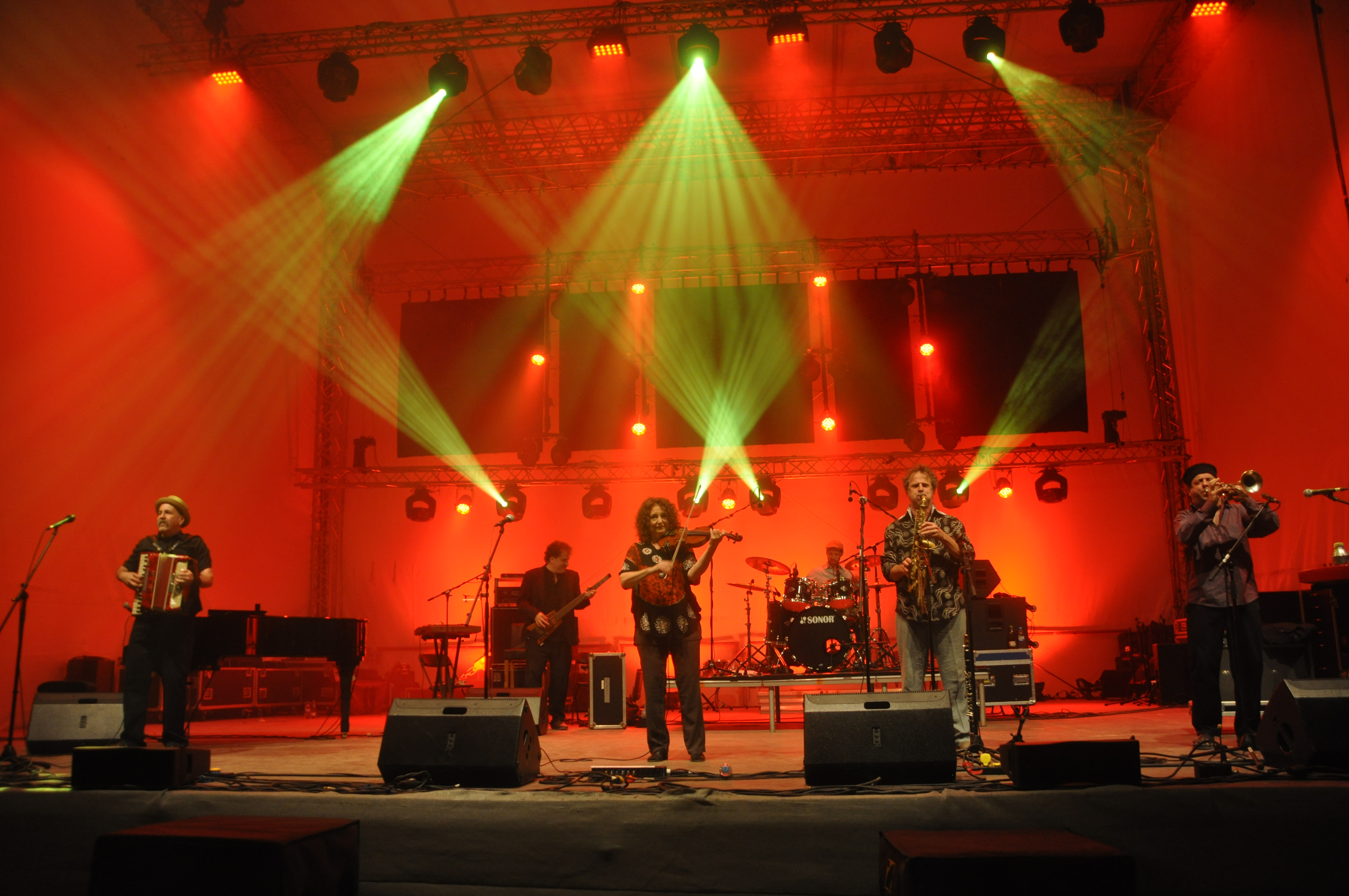 The Klezmatics (USA), appearence at the 11th world music festival "Horizonte" 2013 at the fortress Ehrenbreitstein, Koblenz, Germany